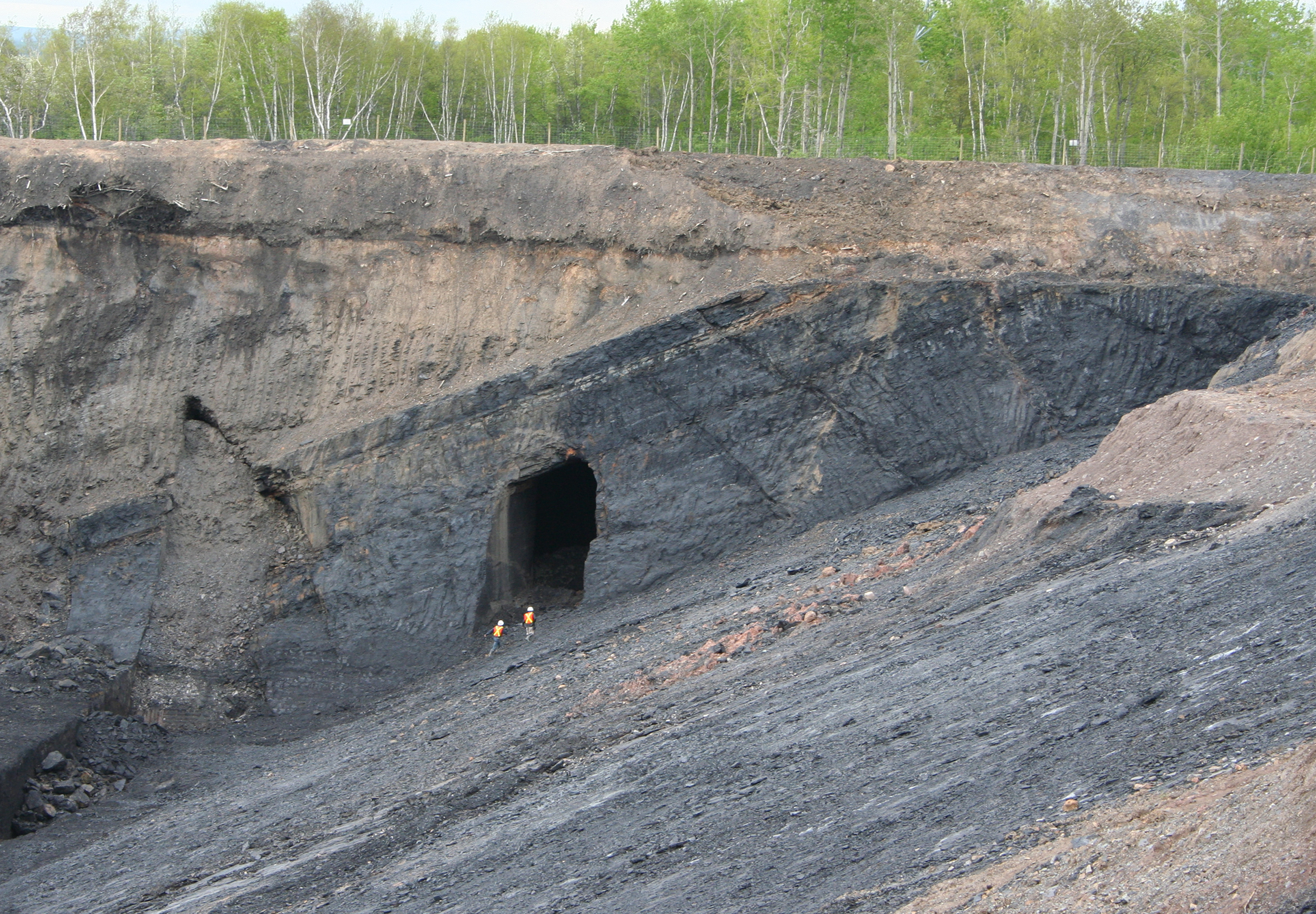 Foord Seam (bituminous coal), Stellarton Formation (Pennsylvanian), Stellarton Basin, Nova Scotia. Coordinates are approximate.